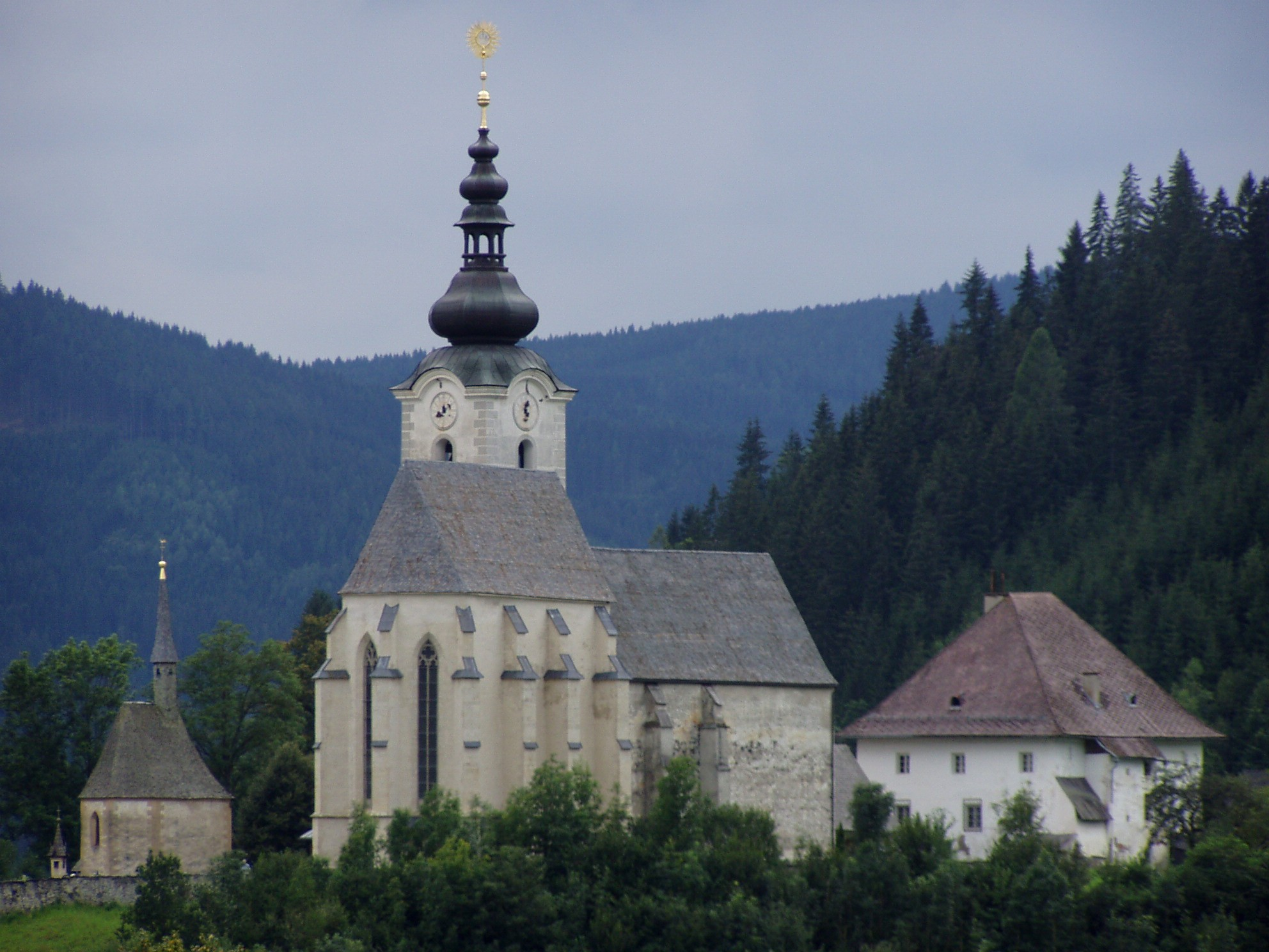 Lieding, parish church St. Margaretha/Lieding Pfarrkirche hl. Margaretha